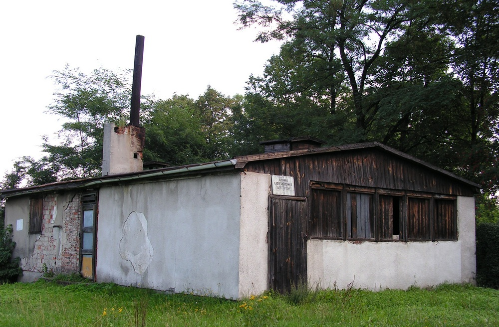 Bath in a Jawischowitz camp - a sub-camp of Auschwitz. Caution! Currently the building was renovated, this photo images the situation from 2006.